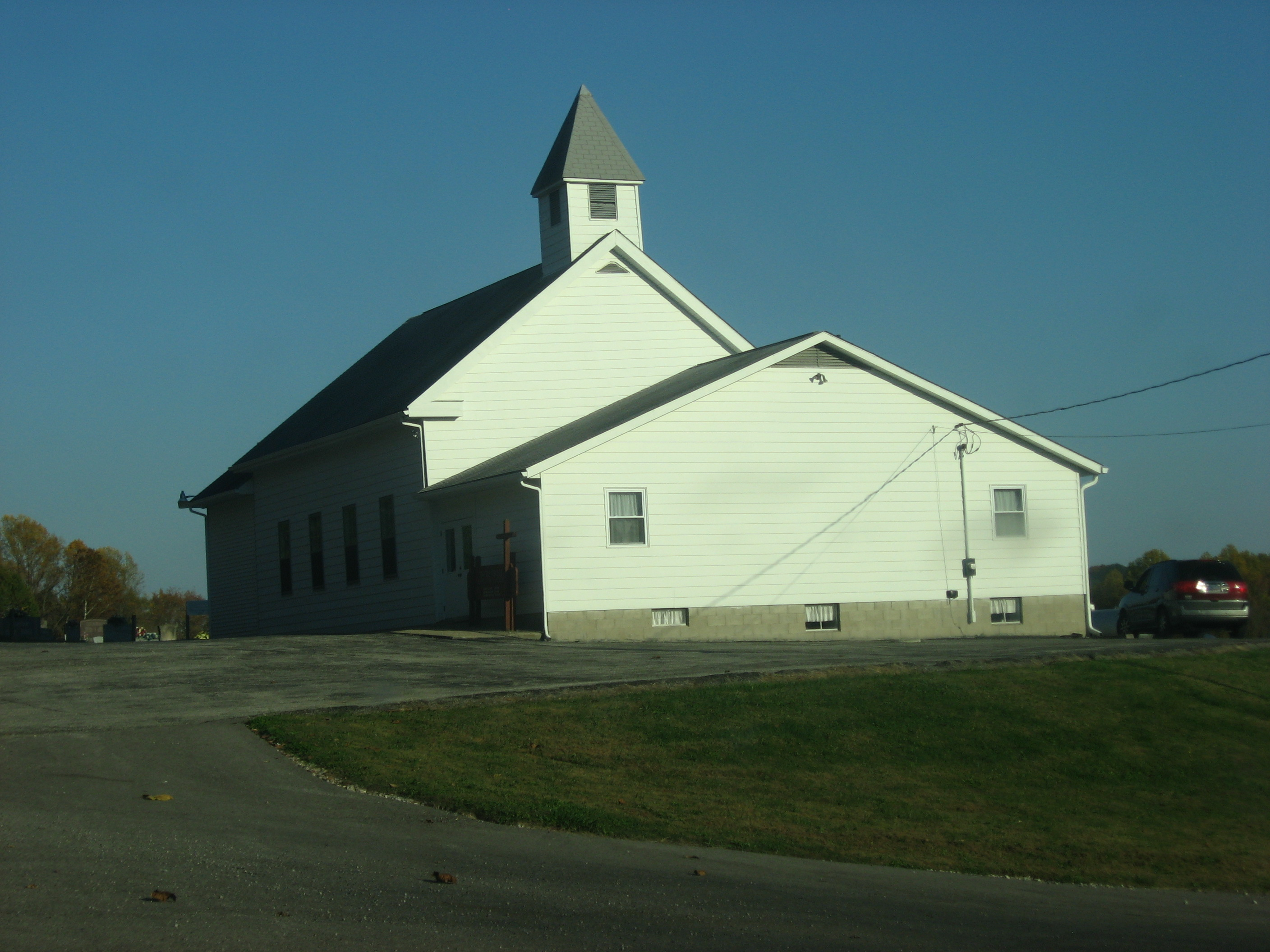 Front and northern side of the Bartlettsville Christian Church, located at 3925 Dunn Bridge Road at Bartlettsville in Pleasant Run Township, Lawrence County, Indiana, United States. It was built in 1900.